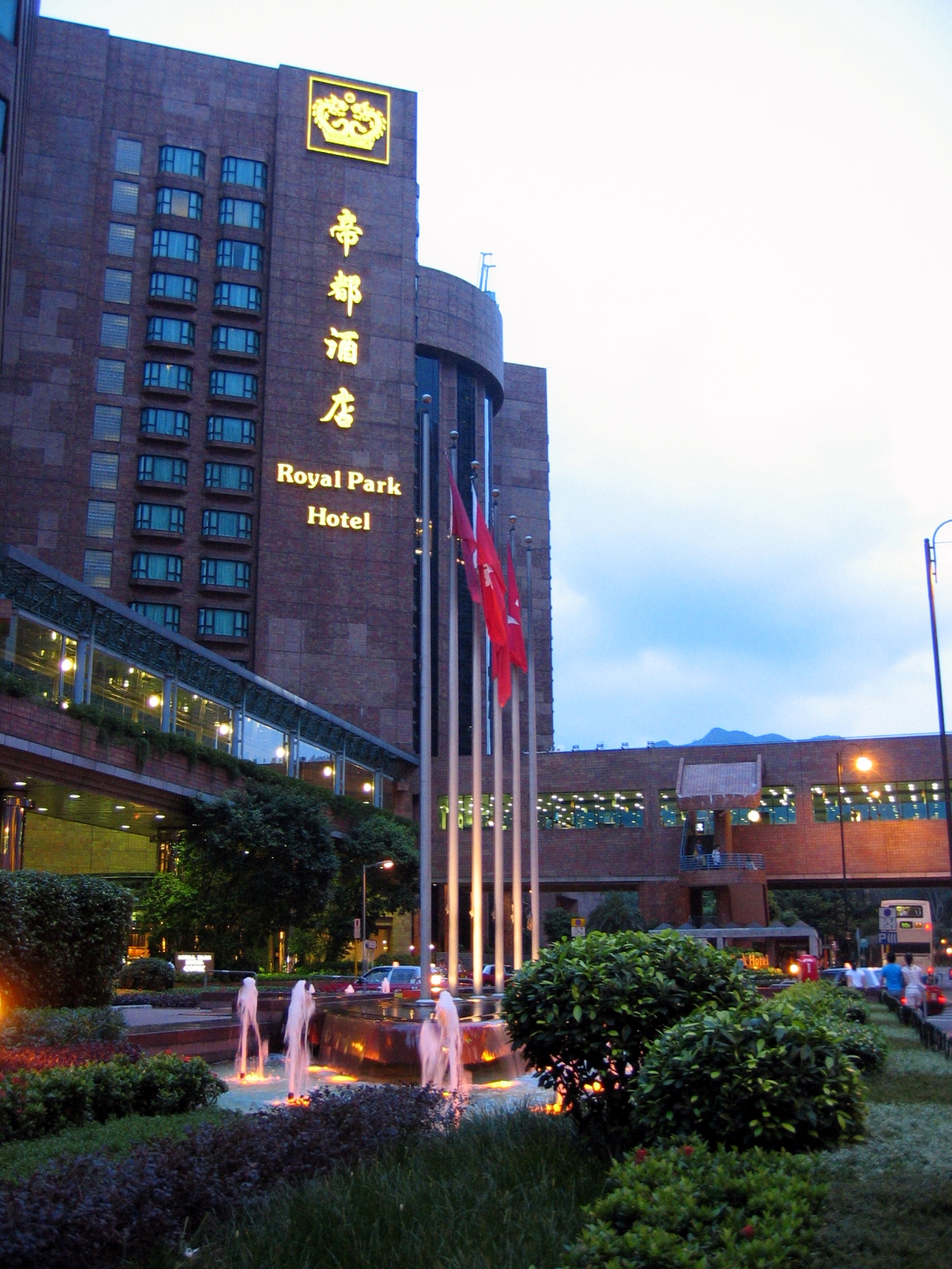 沙田zh:帝都酒店 HK Royal Park Hotel in 2006